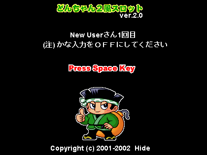 This is a Don-Chan 2 title screen.